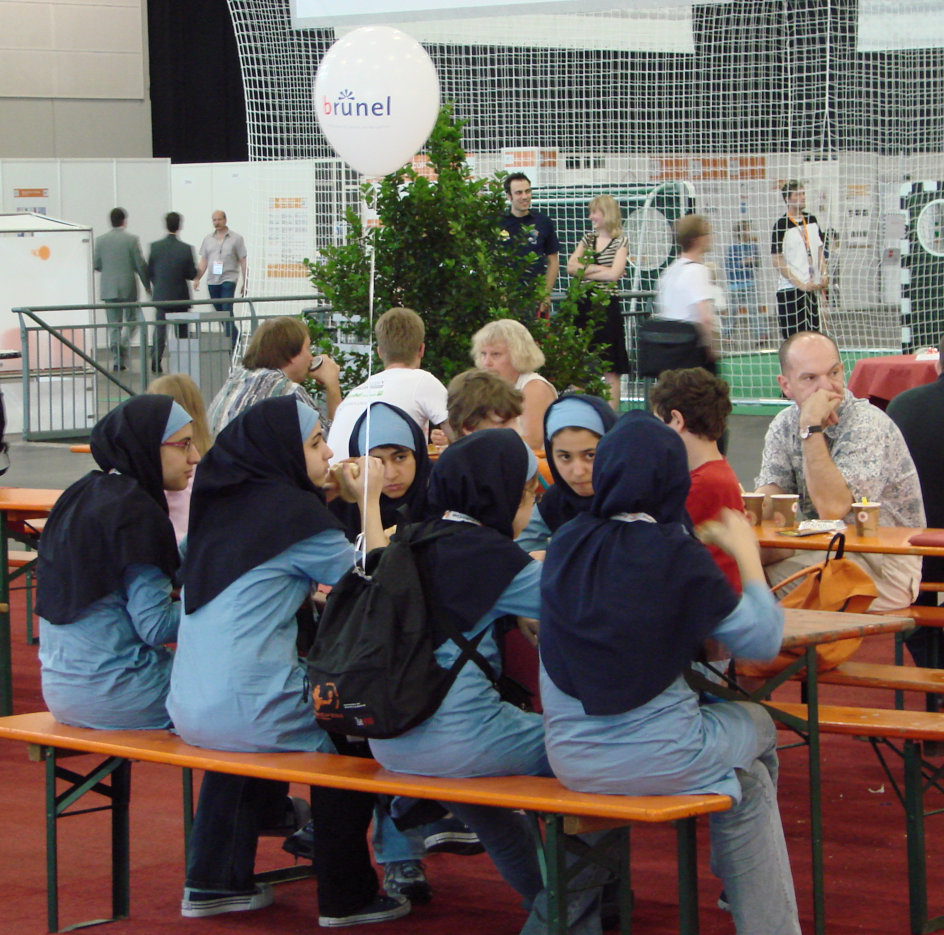 The succesful Iranian team at Robocup 2006